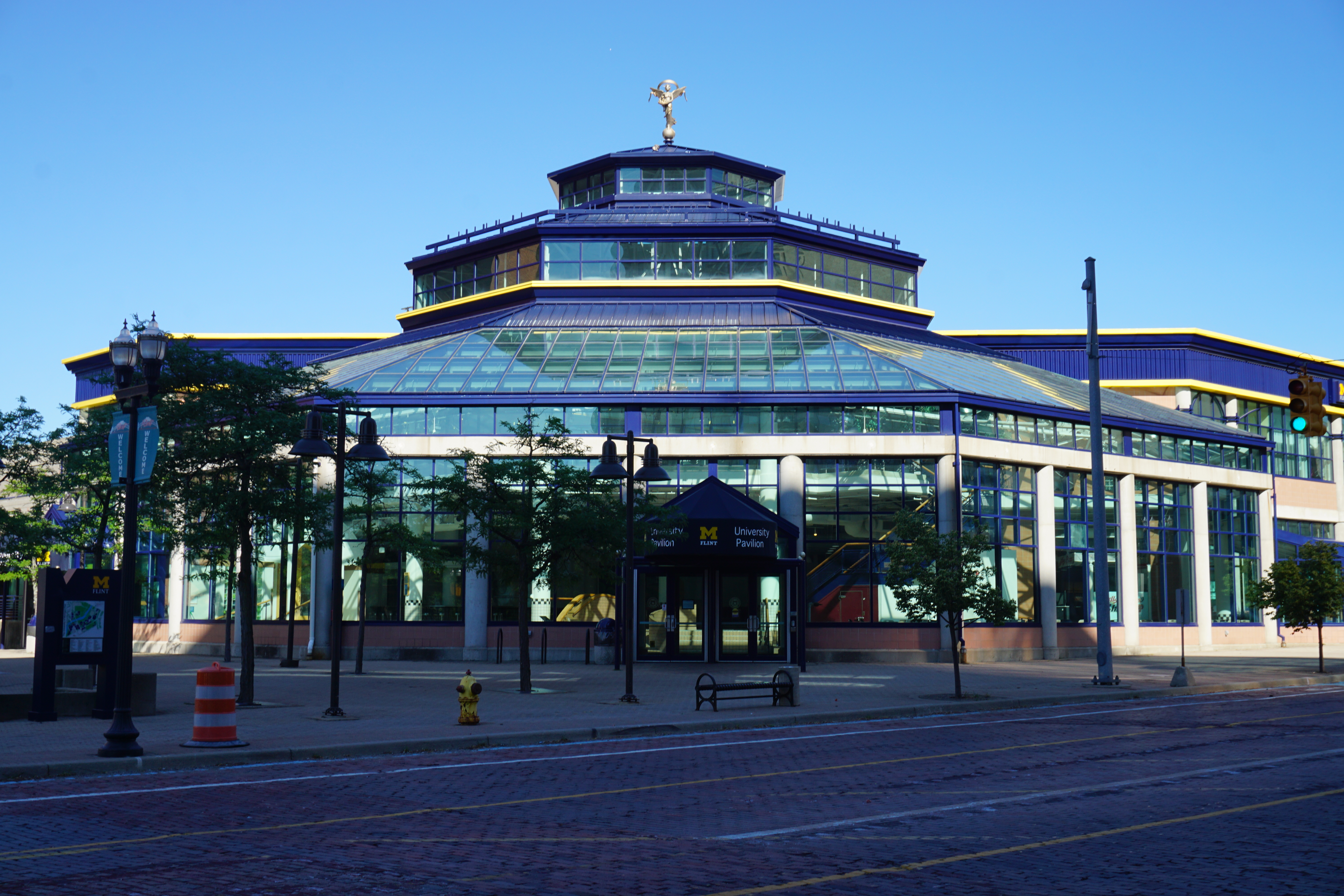 The University Pavilion on the campus of the University of Michigan–Flint in Flint, Michigan (United States).